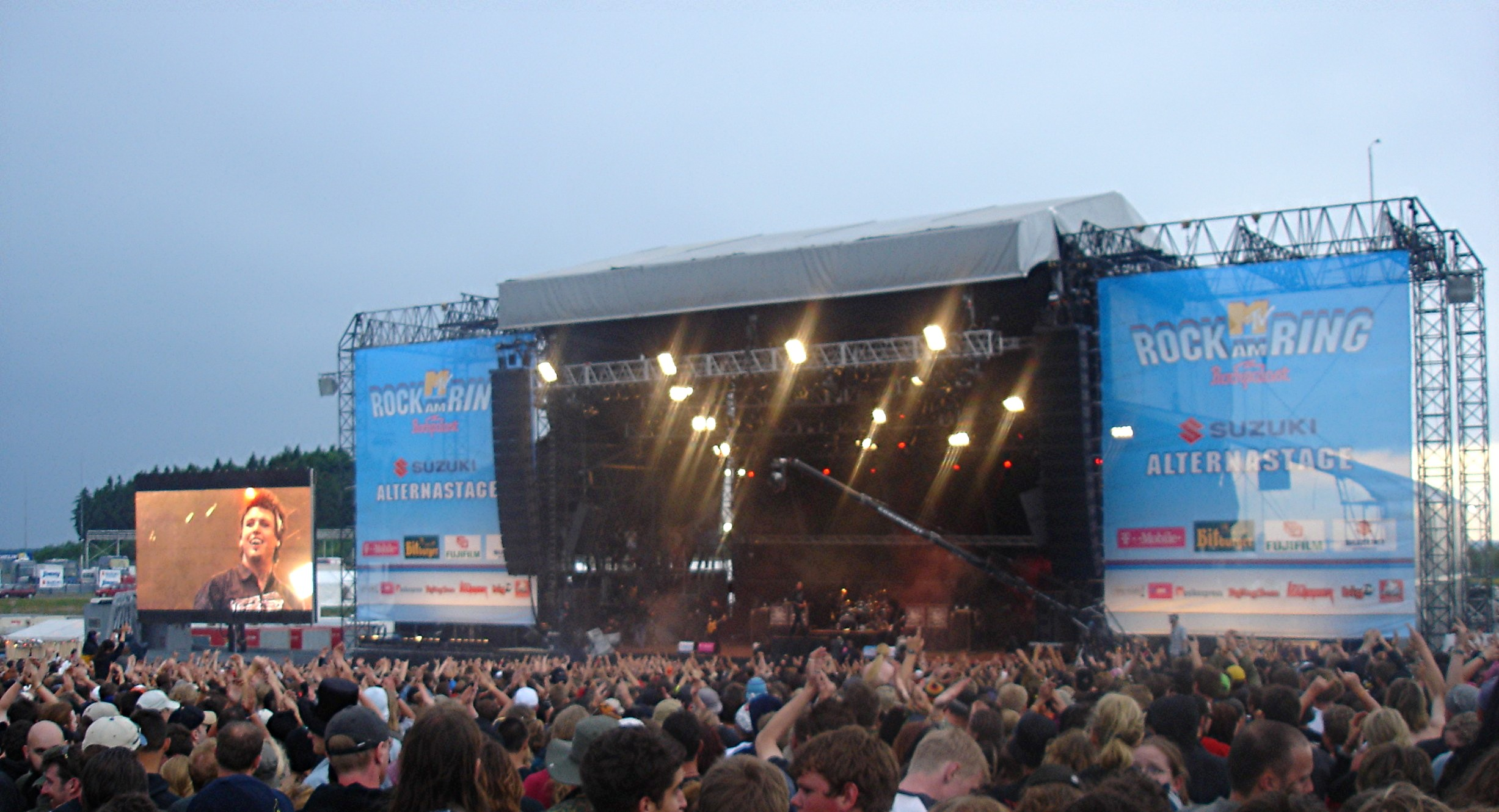 Papa Roach at Rock am Ring 2005